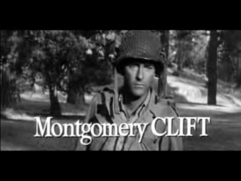 Cropped screenshot of Montgomery Clift from the trailer for the film The Young Lions (1958).